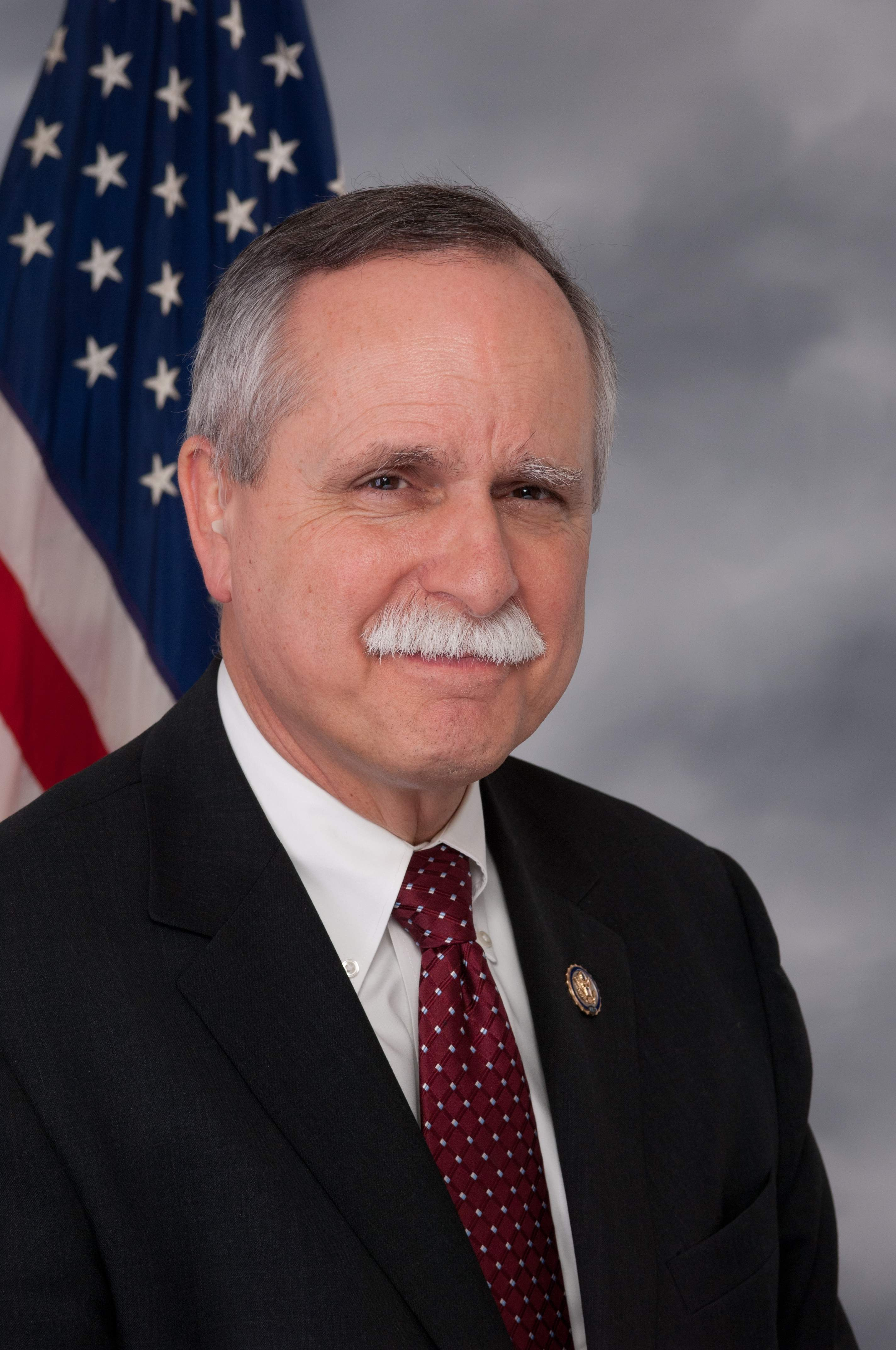 David McKinley, member of the United States House of Representatives